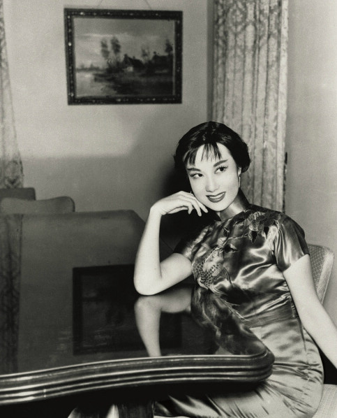 Li Lihua sitting at a table